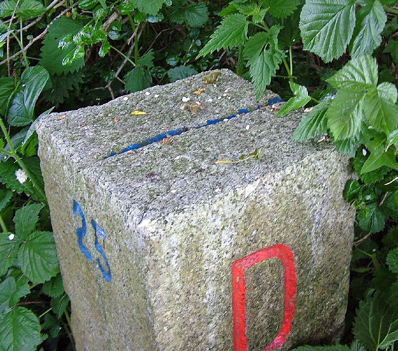 Boundary post between Denmark and Germany. The D represents Denmark (Danish: Danmark). The German side shows DRP (German: Deutsches Reich Preußen). On border posts replaced since World War II, the German inscription remains the archaic DR (Deutsches Reich). The thin blue line marks the actual border, so a no man's land does not exist on this border. This post is no. 25. The posts are numbered from East to West, the last one being no. 280 [1]. Photo taken by Jørgen Larsen, june 2005.